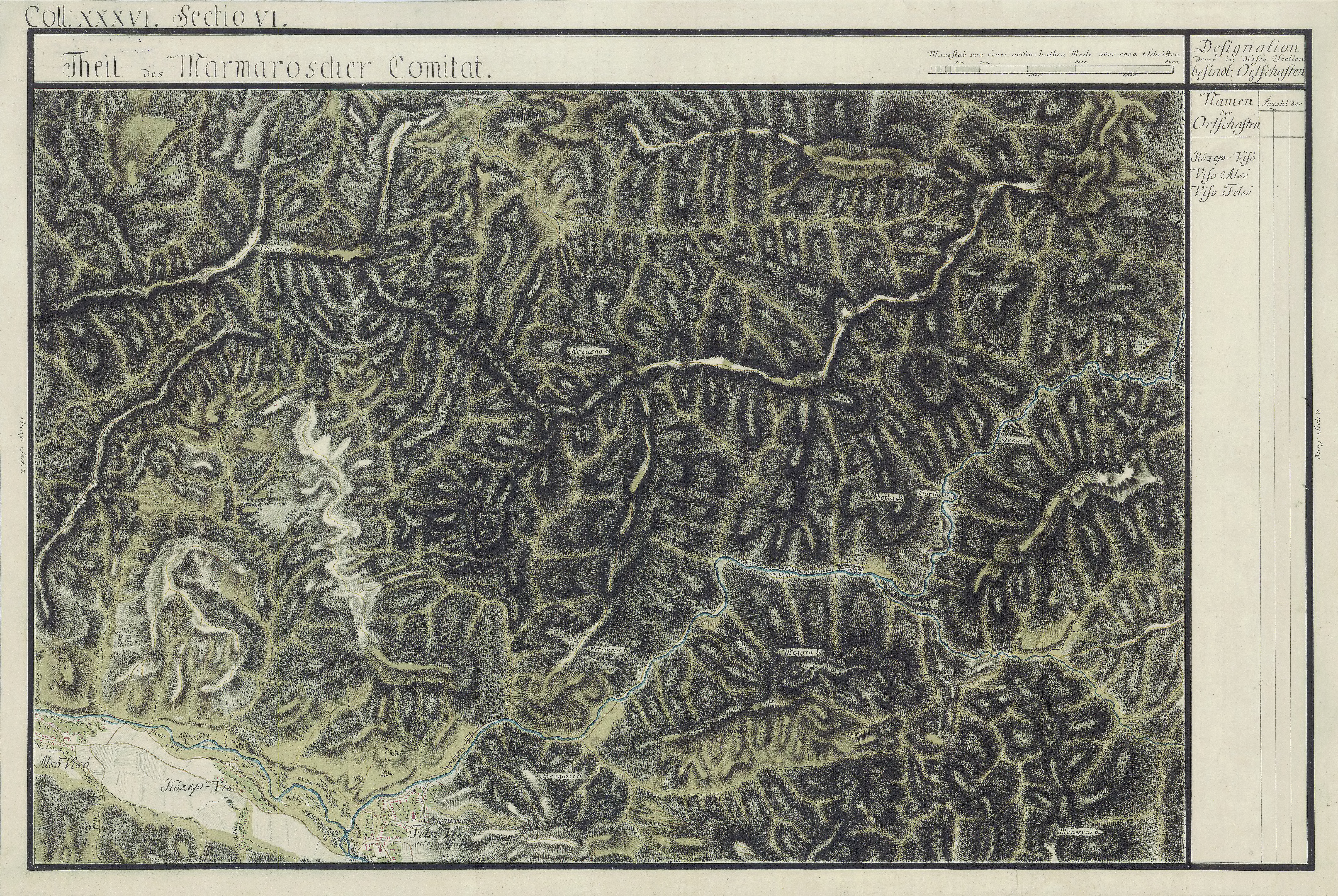 Maramureş County, 1769-1773. Josephinische Landesaufnahme pg.36-06